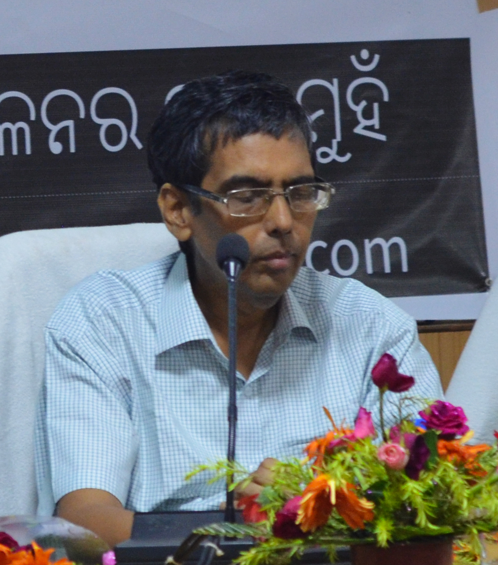 Panelists Anil Kumar Pradhan, Sudhir Pattnaik, Jatin Nayak and Debi Prasanna Pattanayak during Odia Wikisource's 1st anniversary, Bhubaneswar, Odisha.